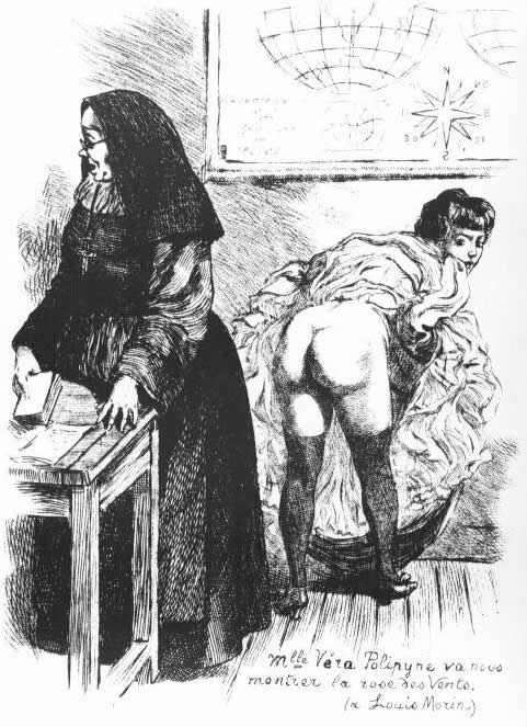 Miss Véra Polipyne is going to show us the compass rose (for Louis Morin)